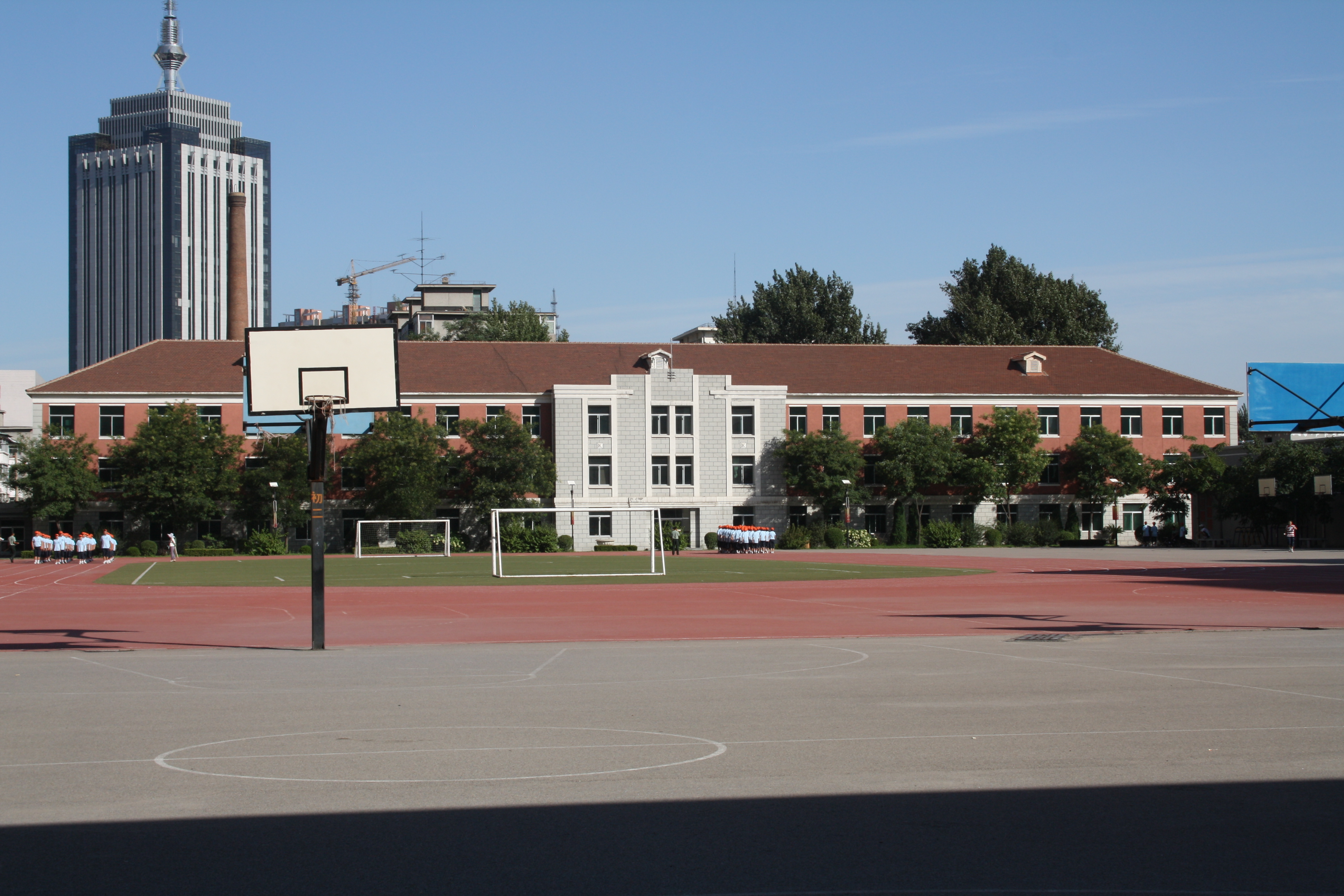 Taked in 2010,removed in Nov,2010.